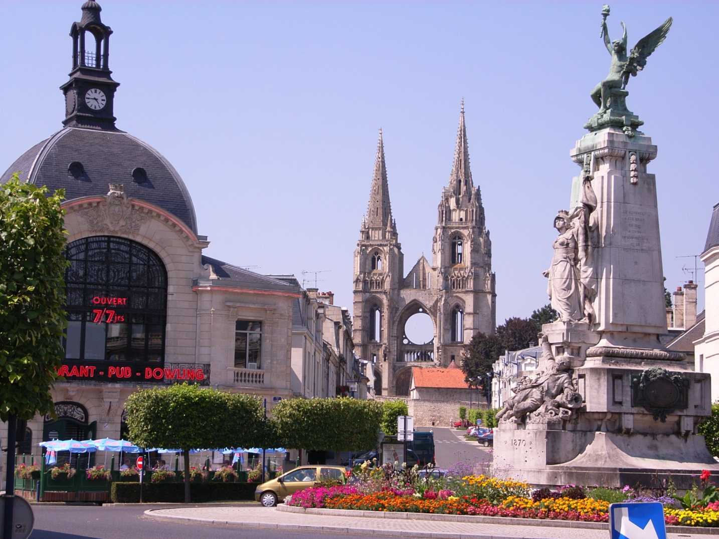 Soissons (France):Abtei Saint-Jean des Vignes and Monument for the war of 1870/71